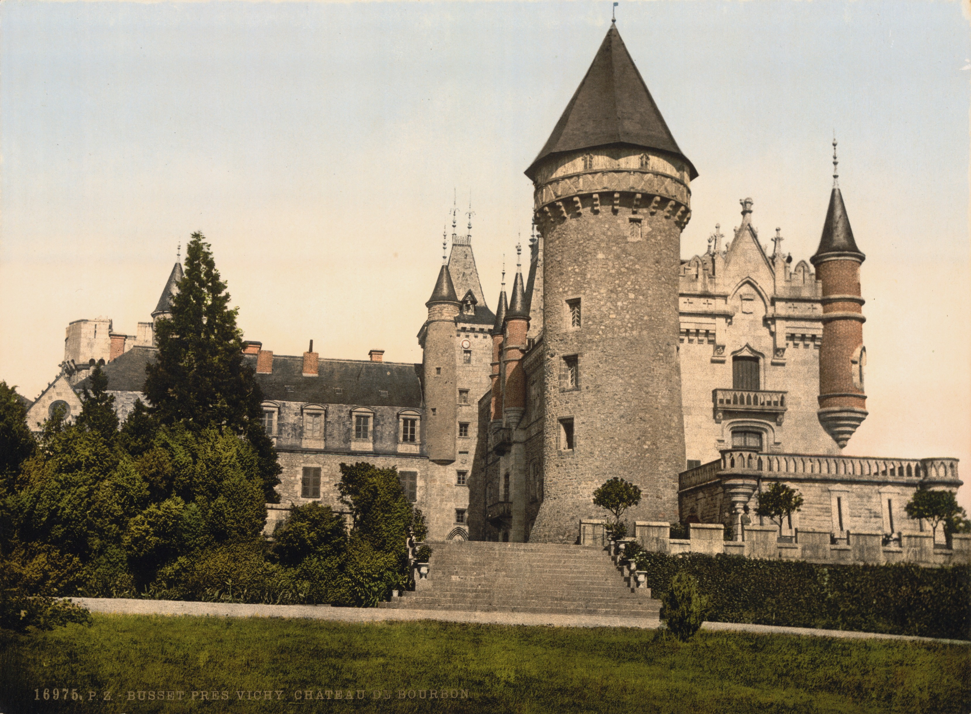 Photochrom print of the Château de Busset near Vichy, France